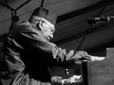 Jimmy McGriff at Organ Summit, Toronto 2004